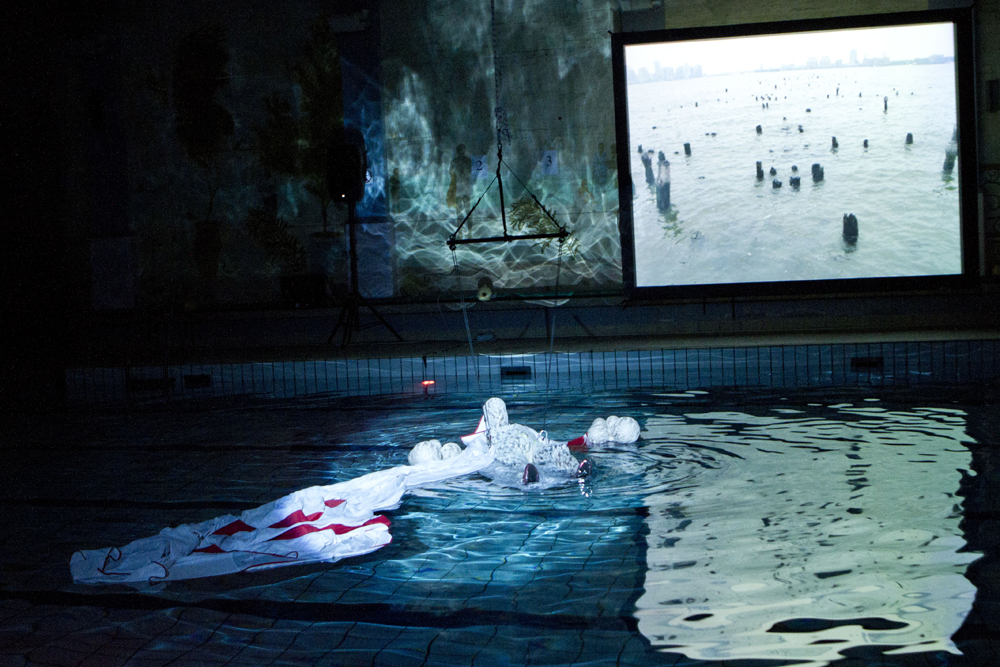 Infecting the City 2012. Africa Centre